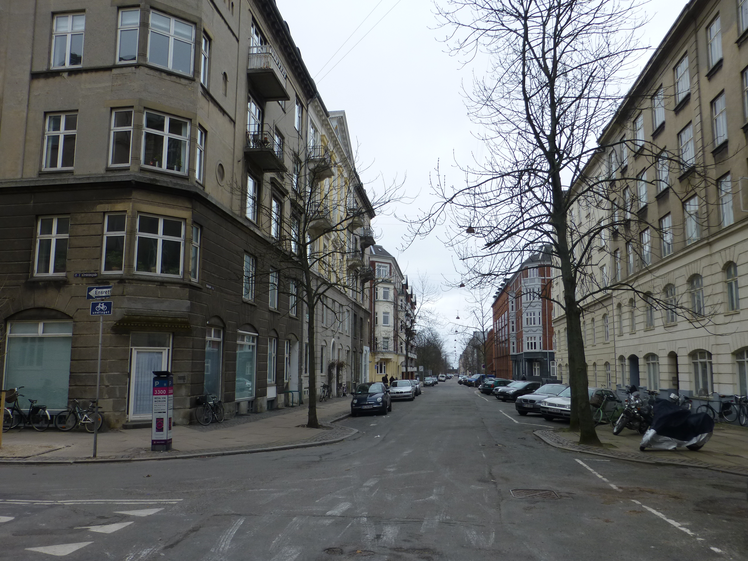 The street Rothesgade in Østerbro in Copenhagen.